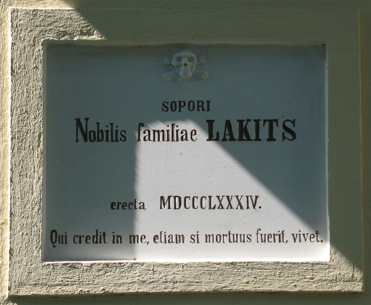 Paňa, legend of Lakits karnel-house